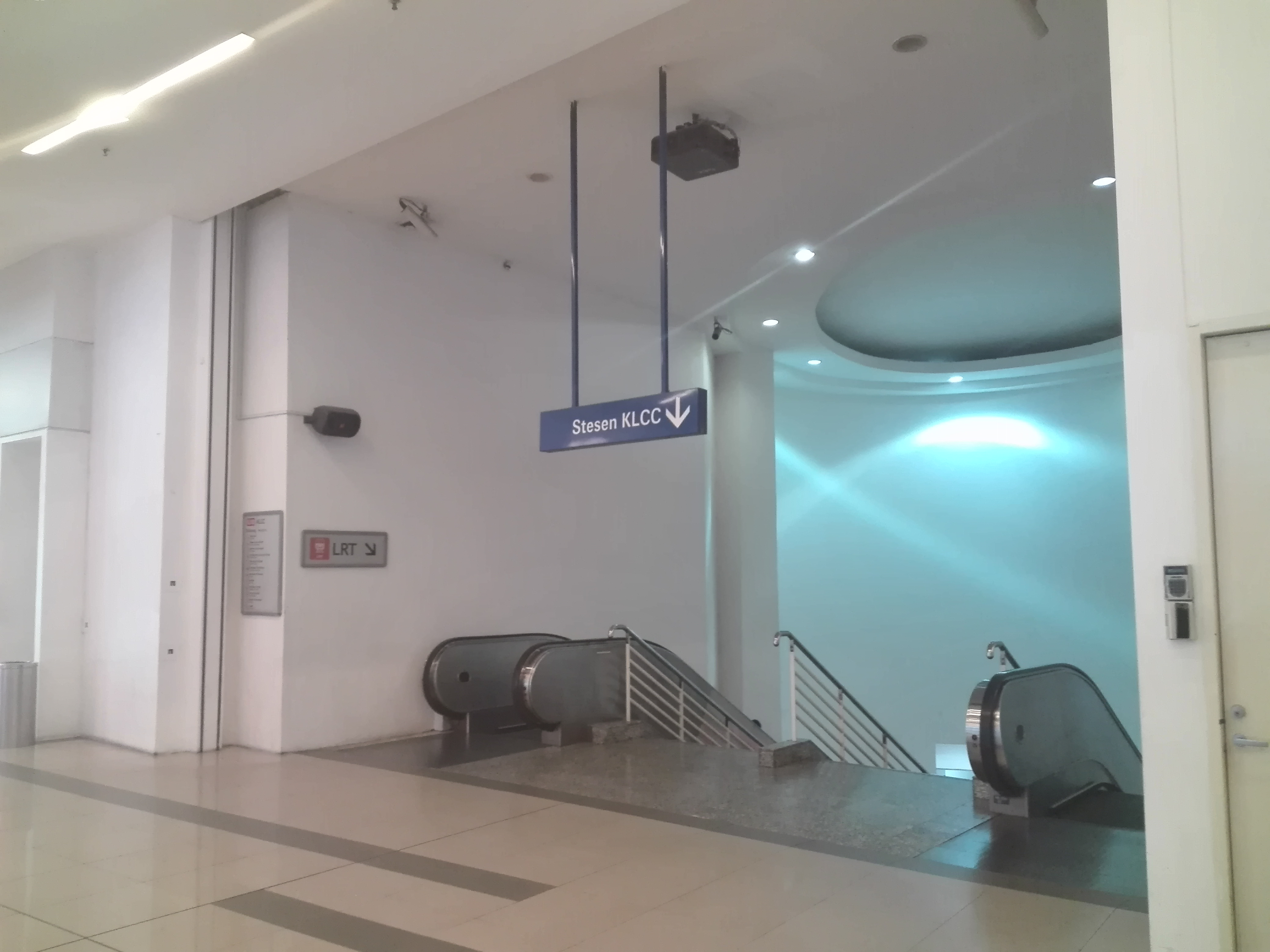 The entrance to the KLCC LRT station from the ground level of Avenue K.